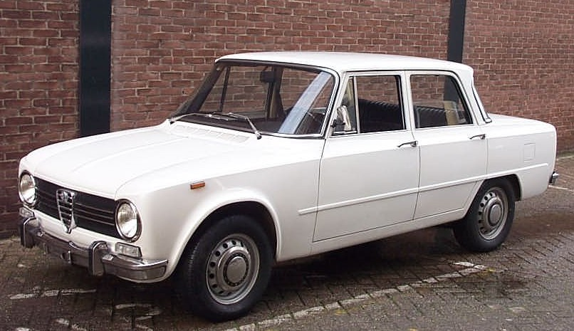 1971 Alfa Romeo Giulia Super 1300 sedan/saloon.